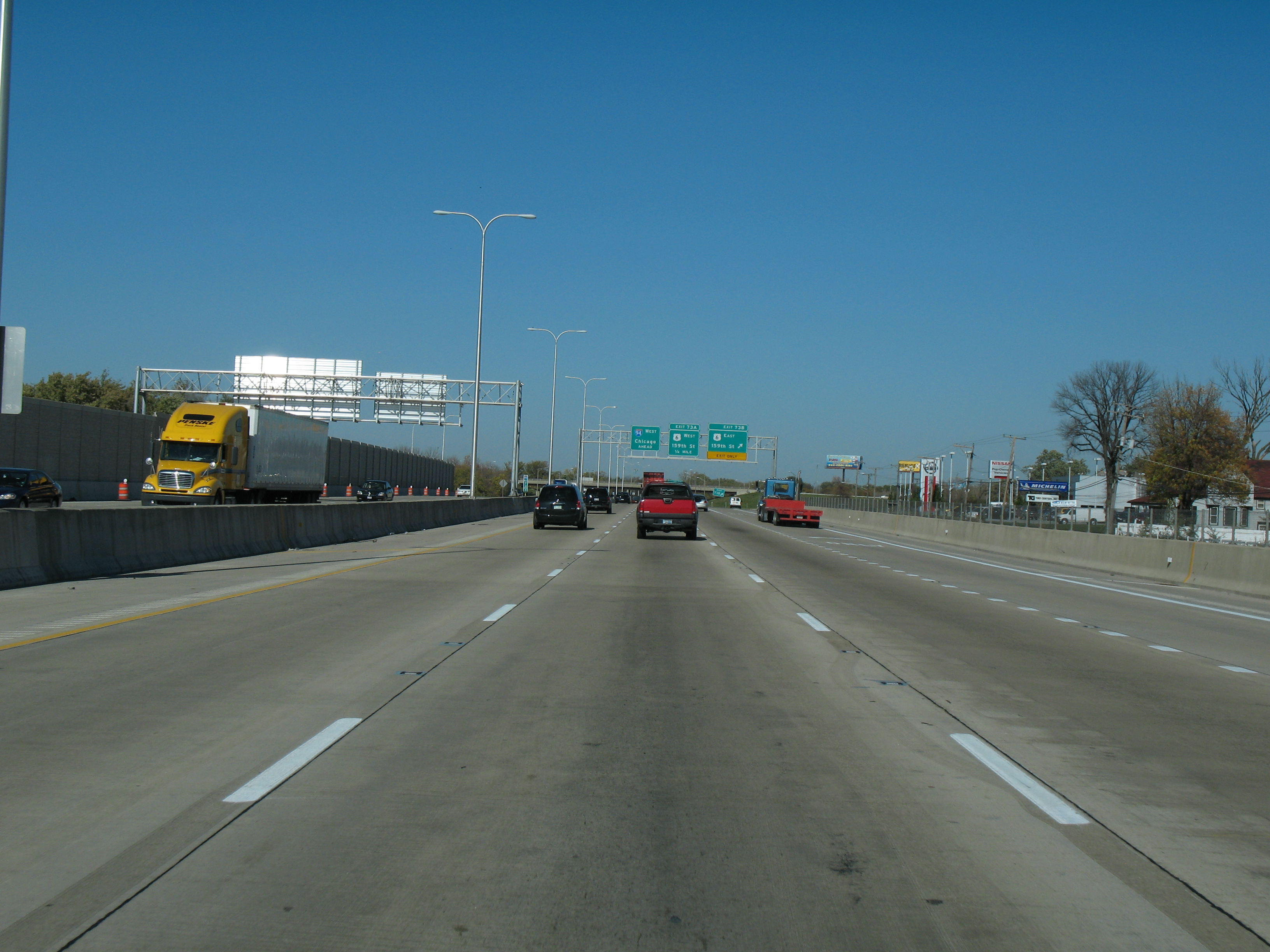 Northbound Bishop Ford Freeway in South Holland, Illinois, south of the 159th Street exit. Summary Northbound Bishop Ford Freeway in South Holland, Illinois, south of the 159th Street exit.